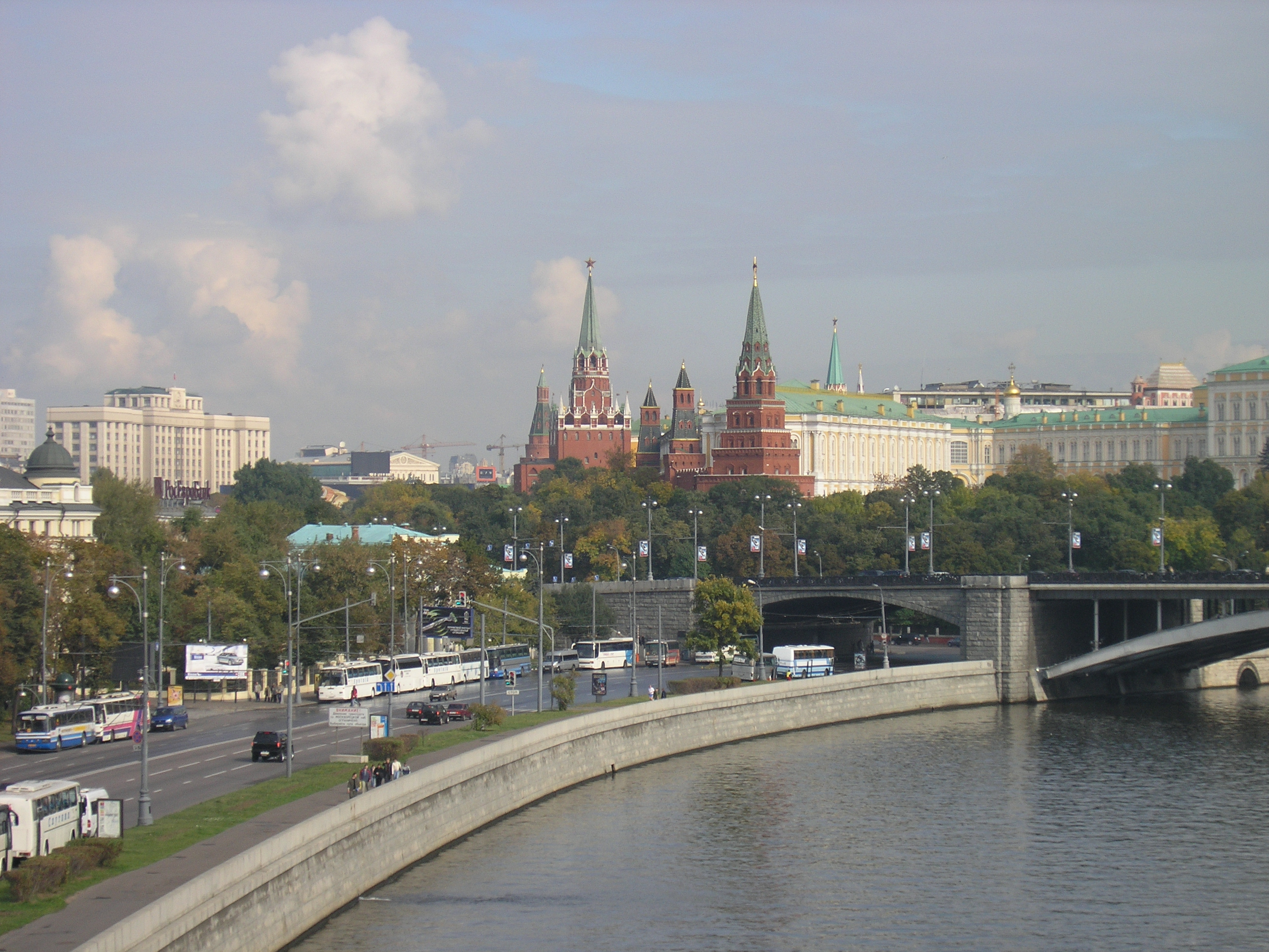 Kremlin and Moscow River. Moscow, Russia.